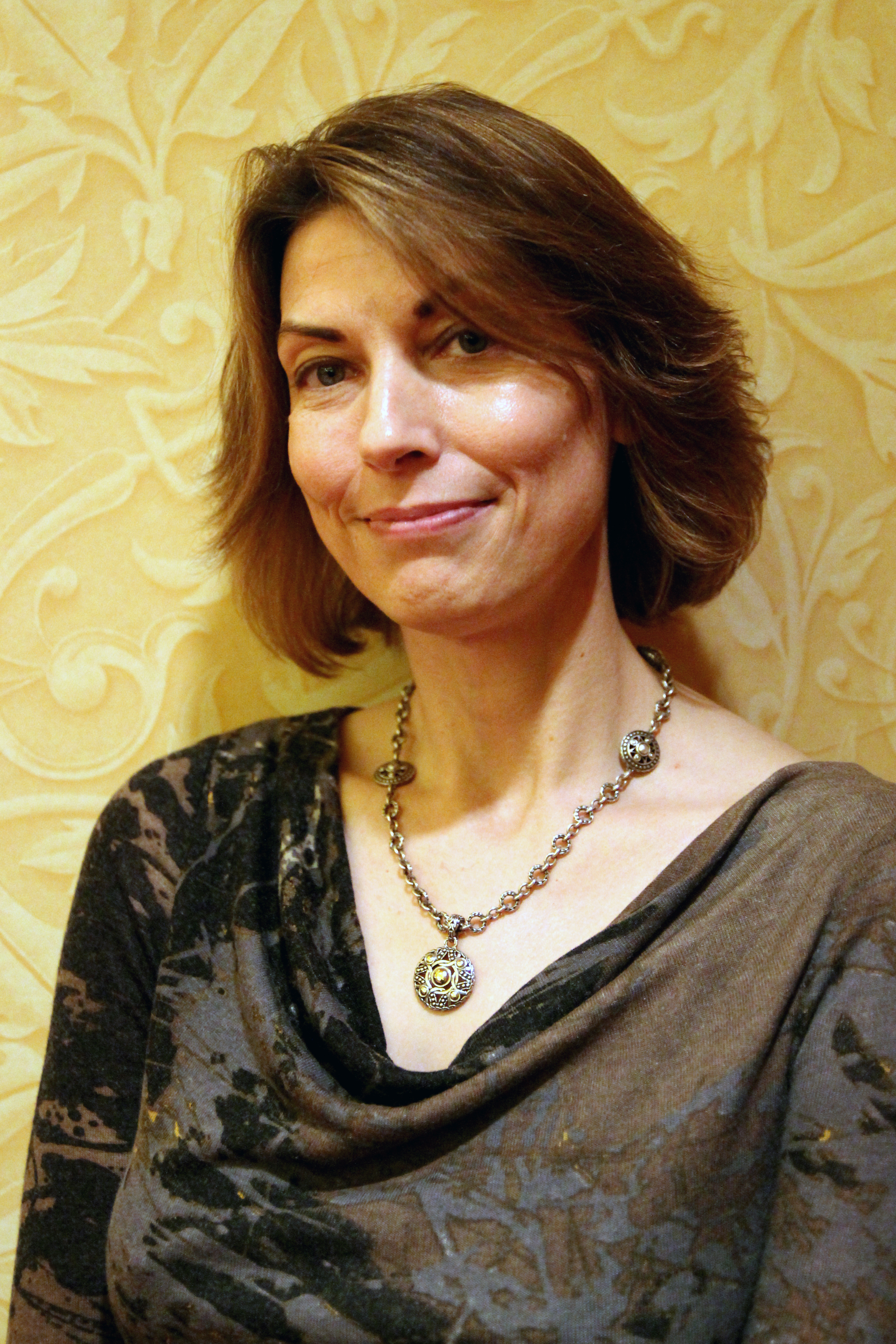 at the Amaz!ng Meeting 2012